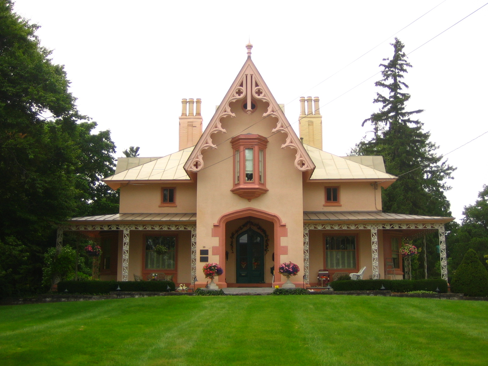 Reuel E. Smith House, front view. 28 West Lake Street, Skaneateles, New York. Designed by Alexander Jackson Davis.